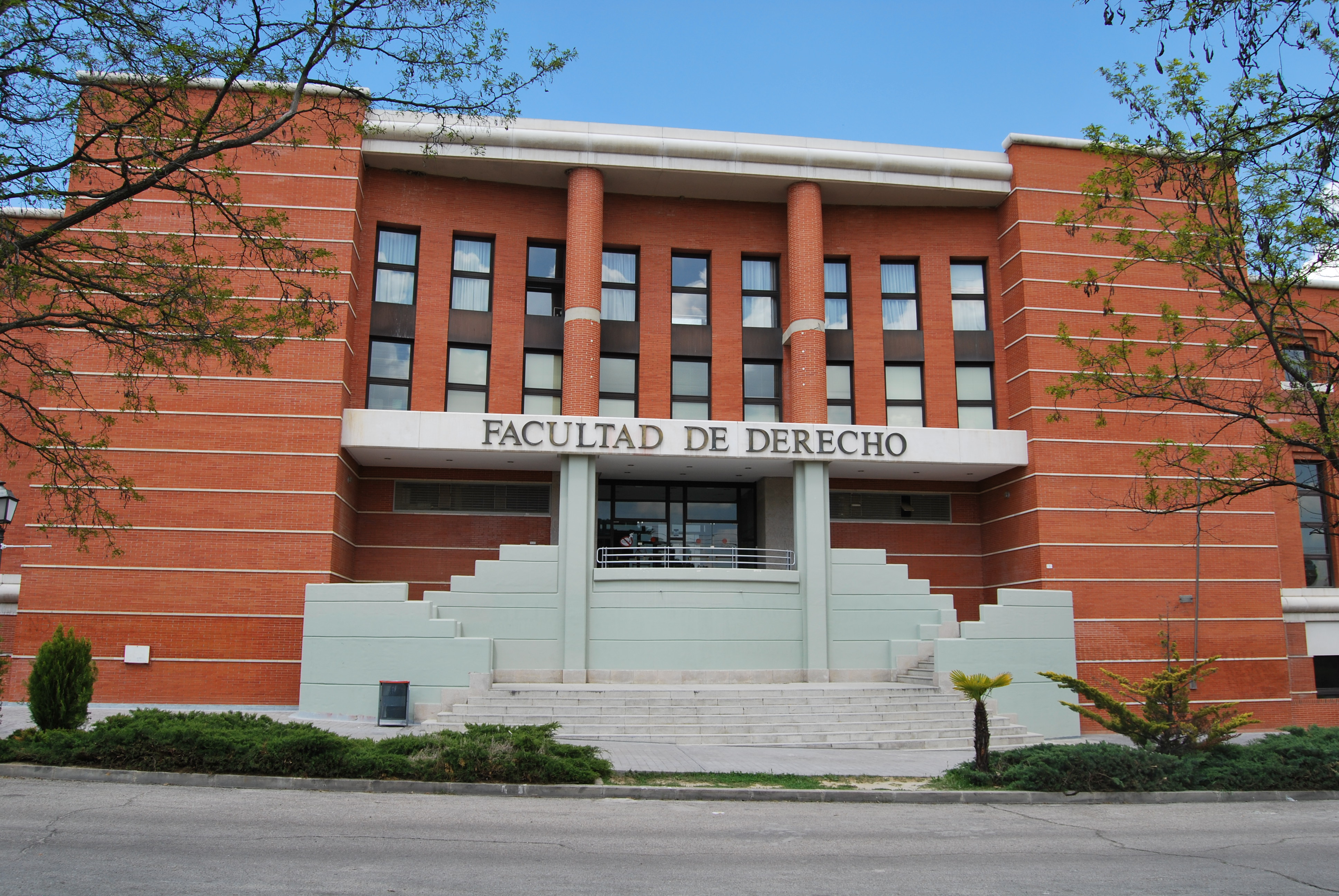 Faculty of Law, Autonomous University of Madrid. It's my own work.